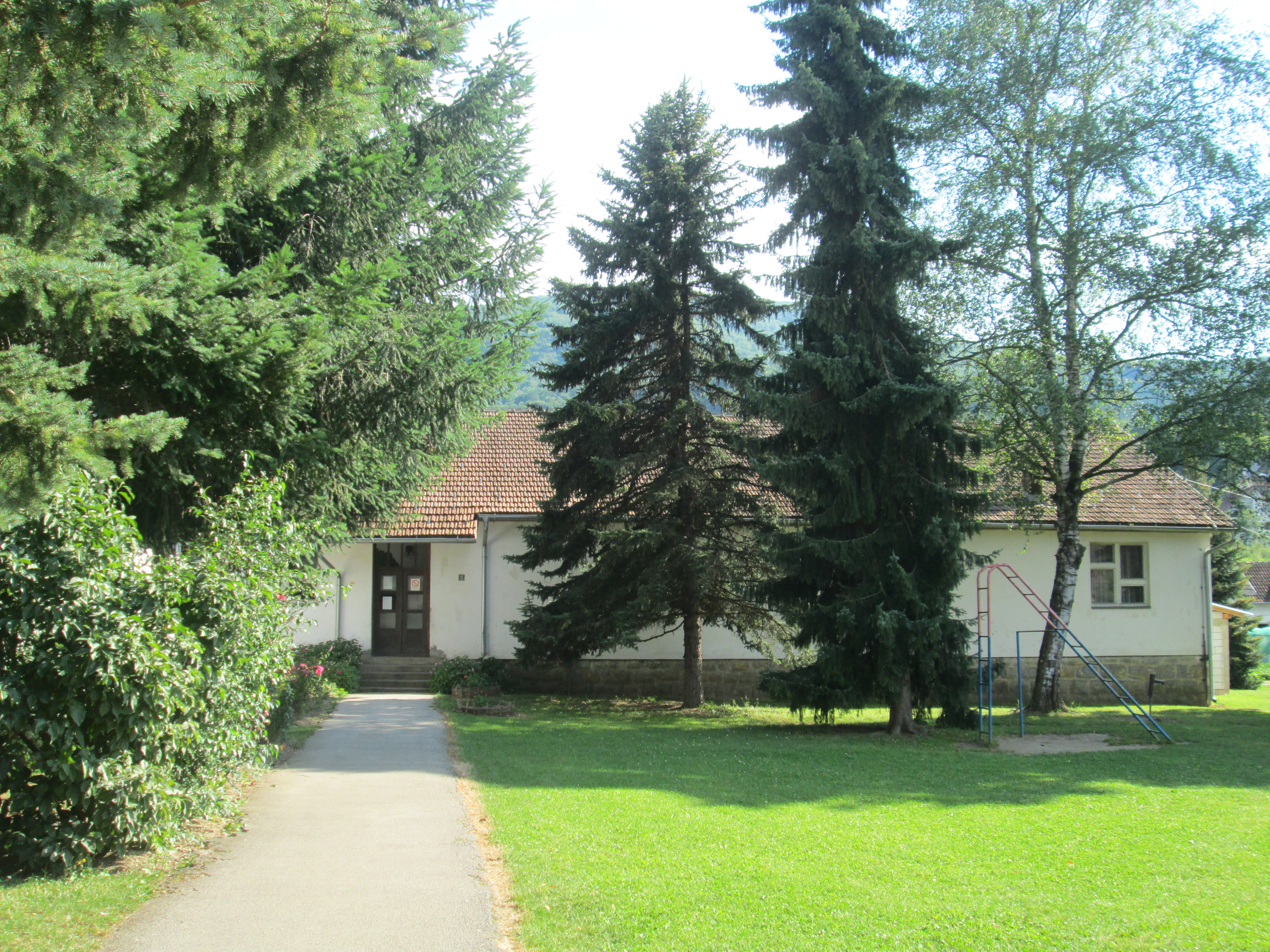 Primary school, Zlakusa Српски (ћирилица): Основна школа, Злакуса